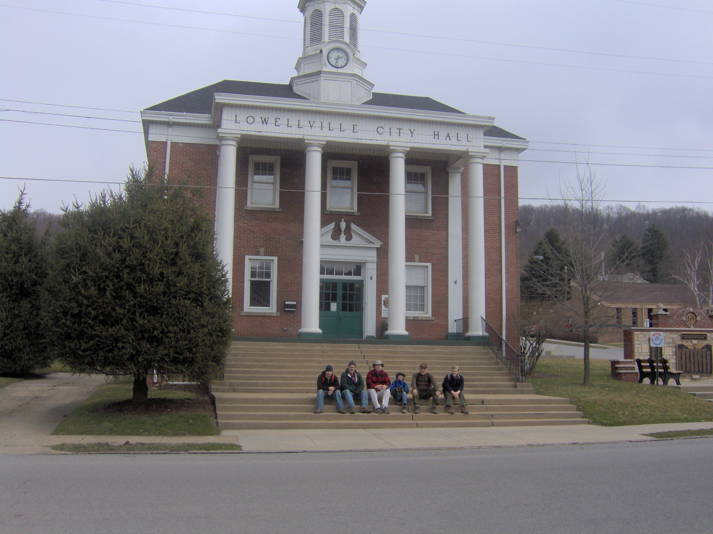 Front of the village hall in Lowellville, Ohio, United States, located at 140 E. Liberty St. Despite the inscription, Lowellville is a village by Ohio law.